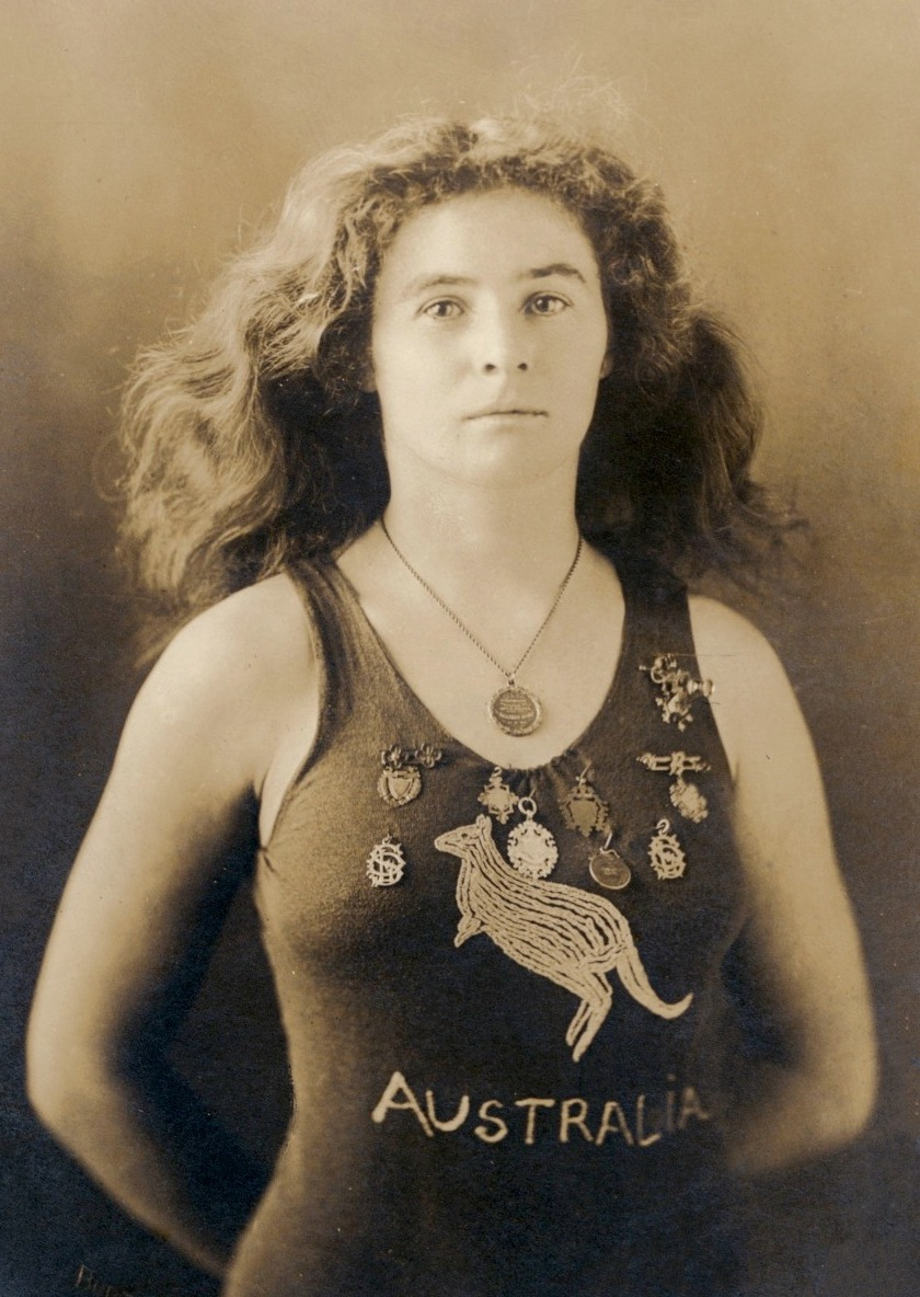 A photograph of Beatrice Kerr